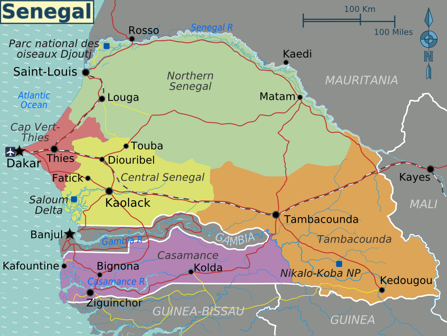 Map of Senegal for use on Wikivoyage, English version